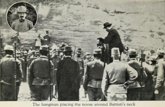 The hanging of Cesare Battisti in 1916